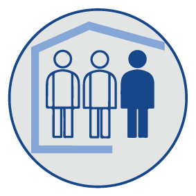 Official logo of the State Agency for Refugees with the Council of Ministers